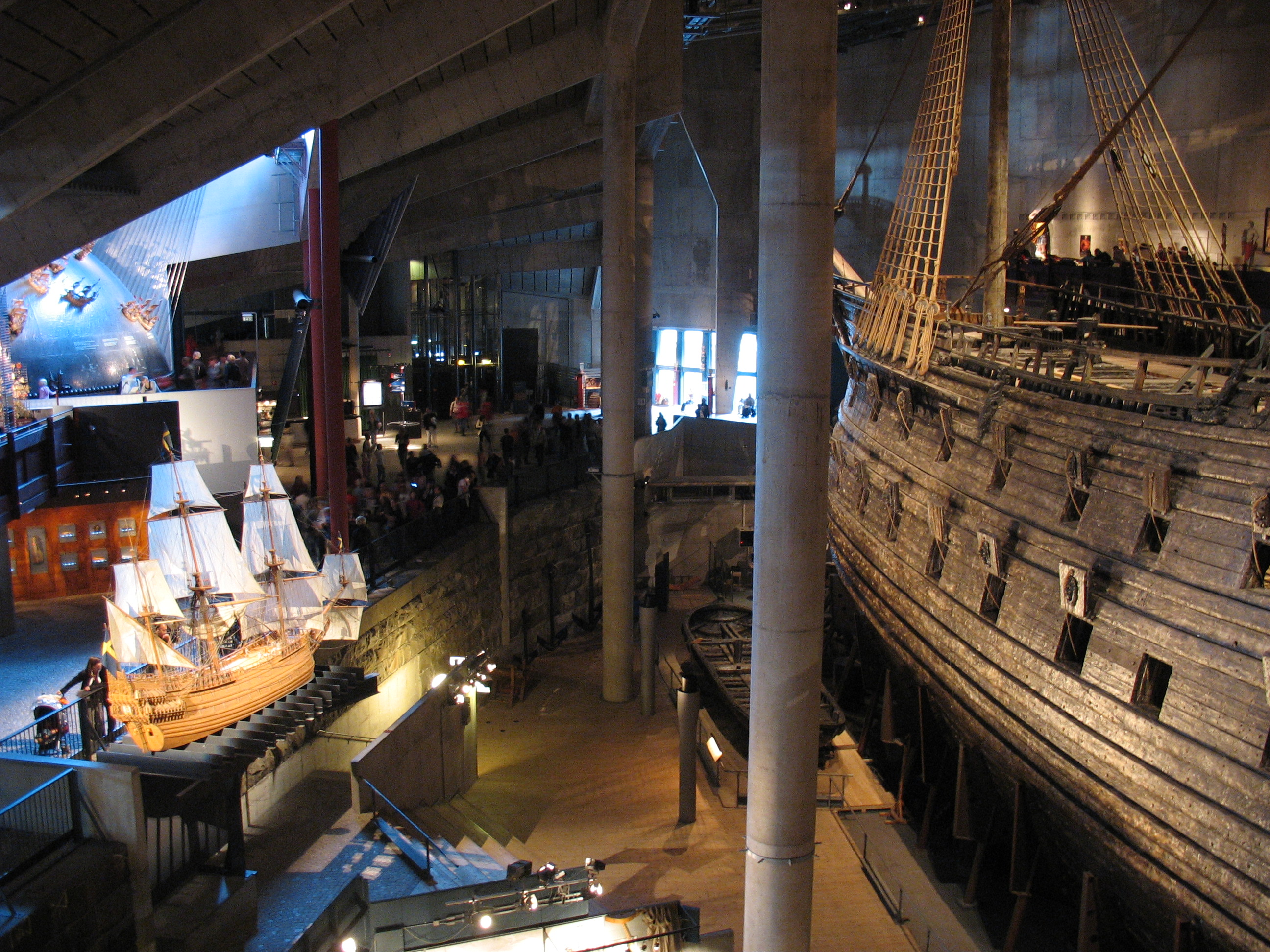 Shot of the interior of the Vasa Museum in Stockholm.